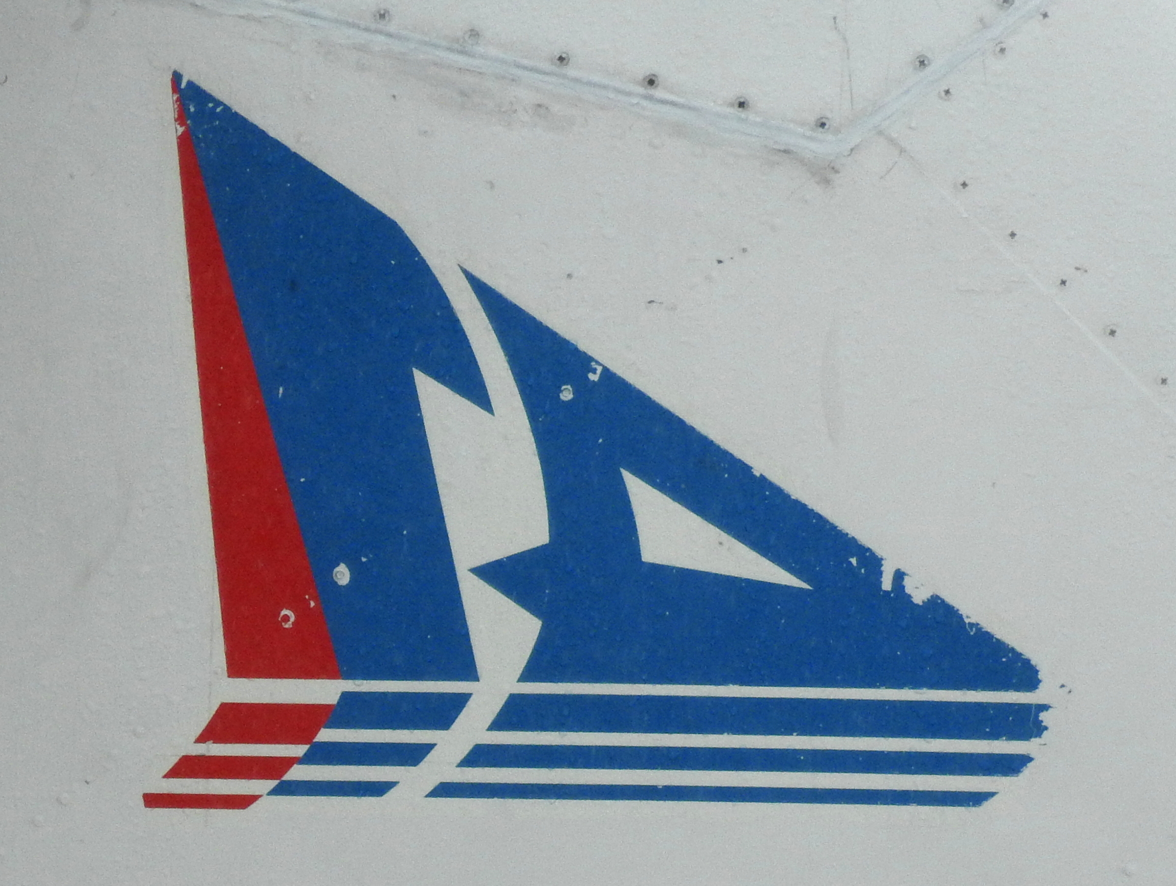 Tail marking of T-400 51-5057 at the 2017 Yokota Air Show